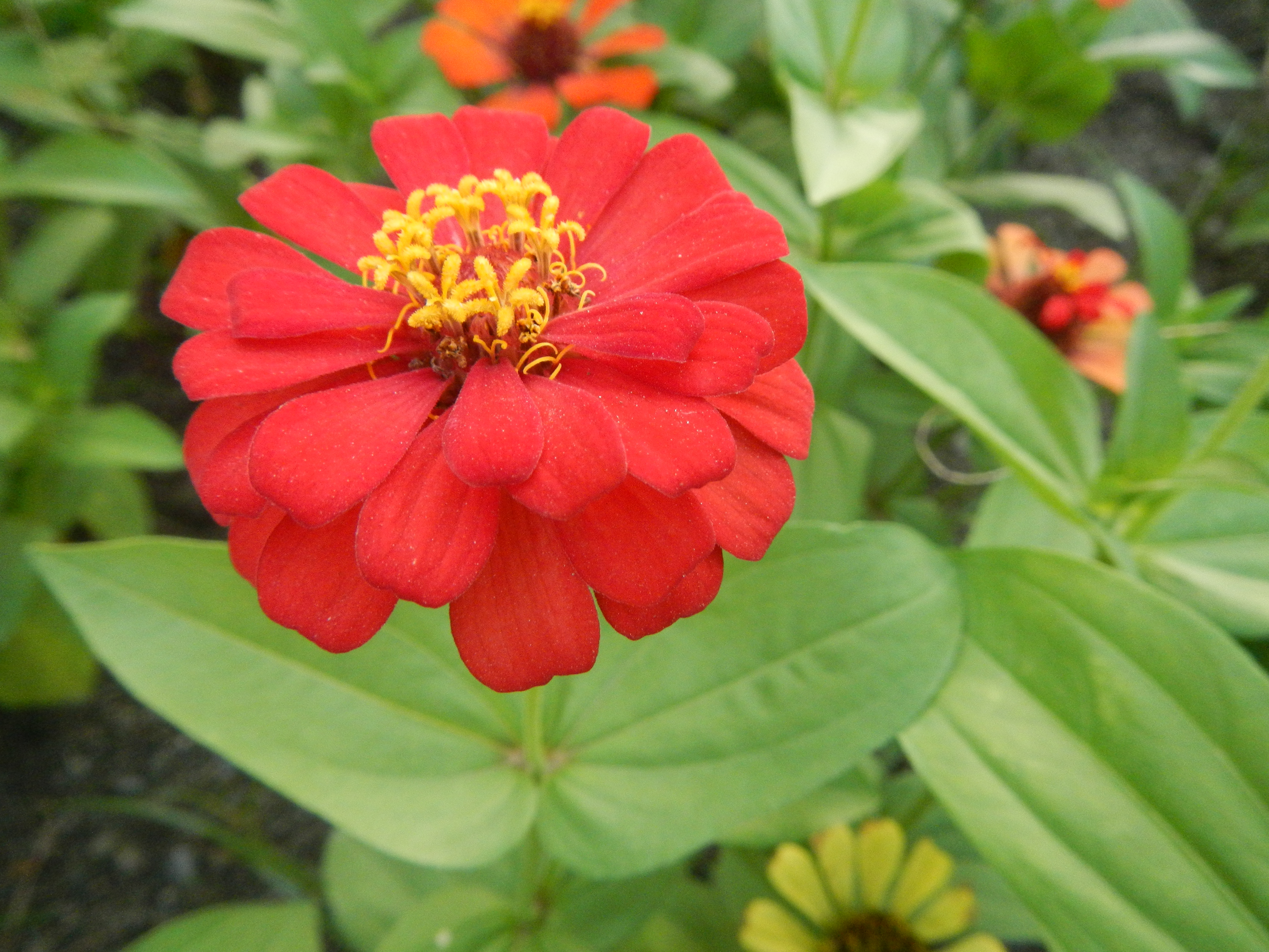 Unidentified Zinnia in Apung Mamacalulu in Barangay Lourdes Sur, Angeles City, Pampanga.